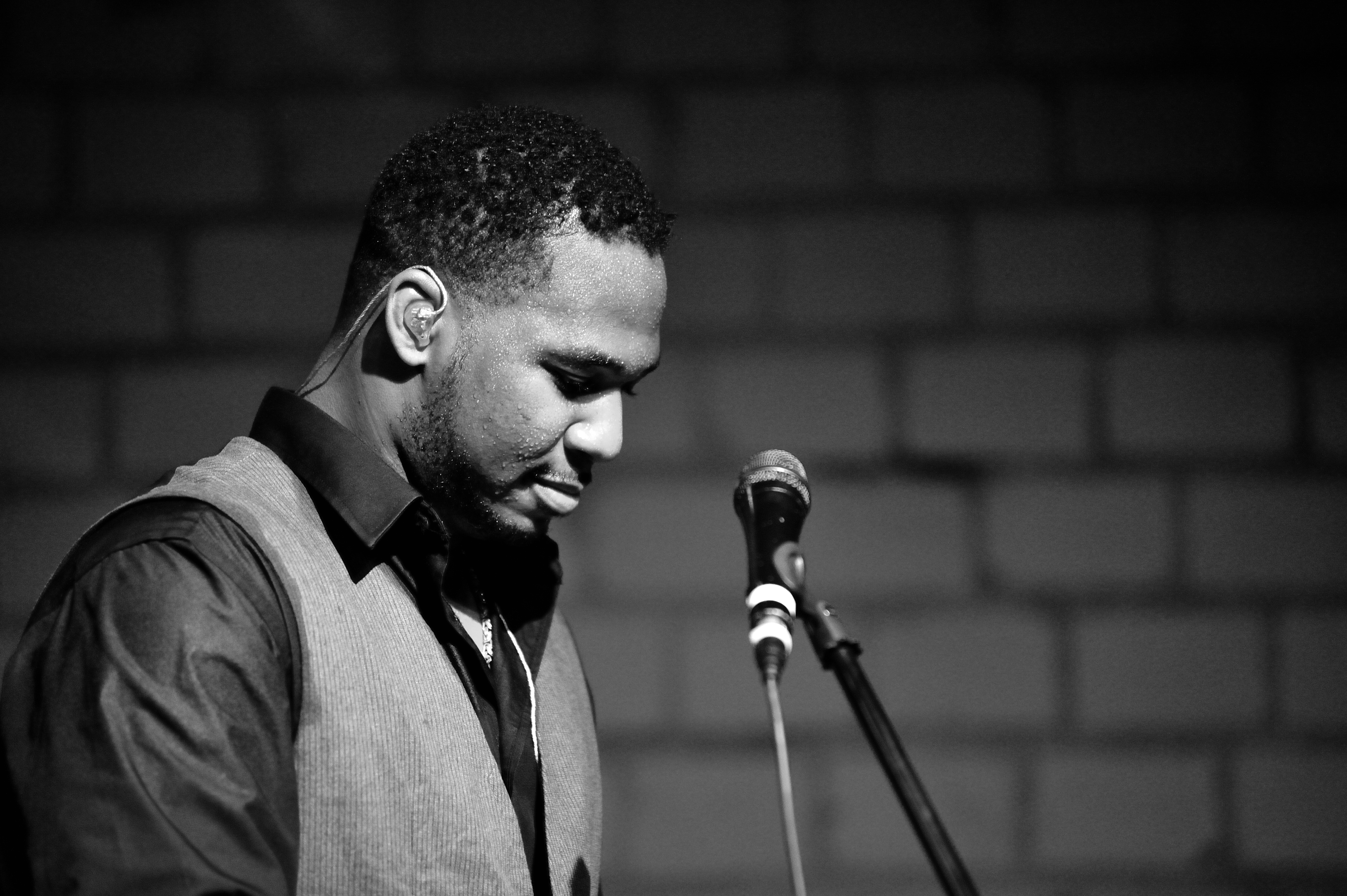 Robert Randolph on 17.07.2012 at BluesGarage Isernhagen, Germany